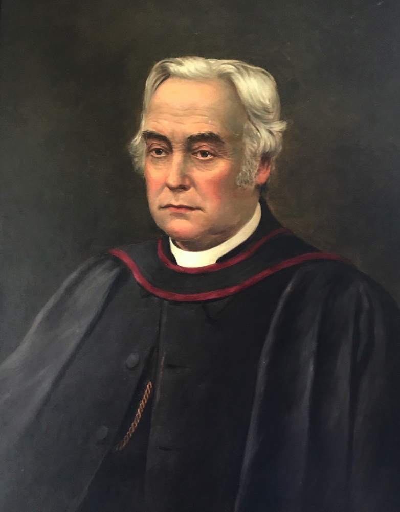 Portrait of the Reverend Frederick Mertens, first Master of Ardingly College.